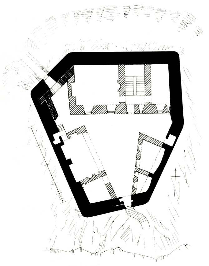 Floor plan of Mingary Castle, Ardnamurchan, Scotland